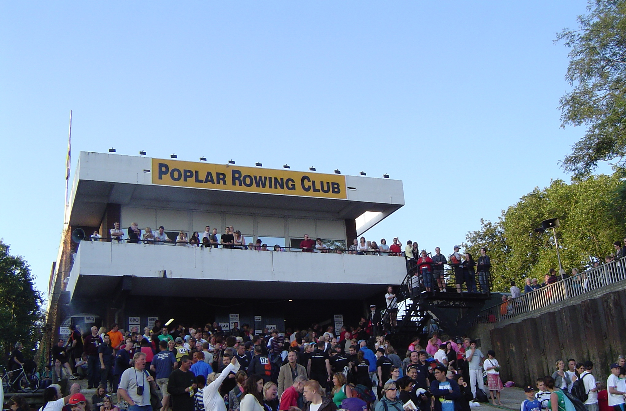 Poplar Blackwall and District Rowing Club club house River Thames